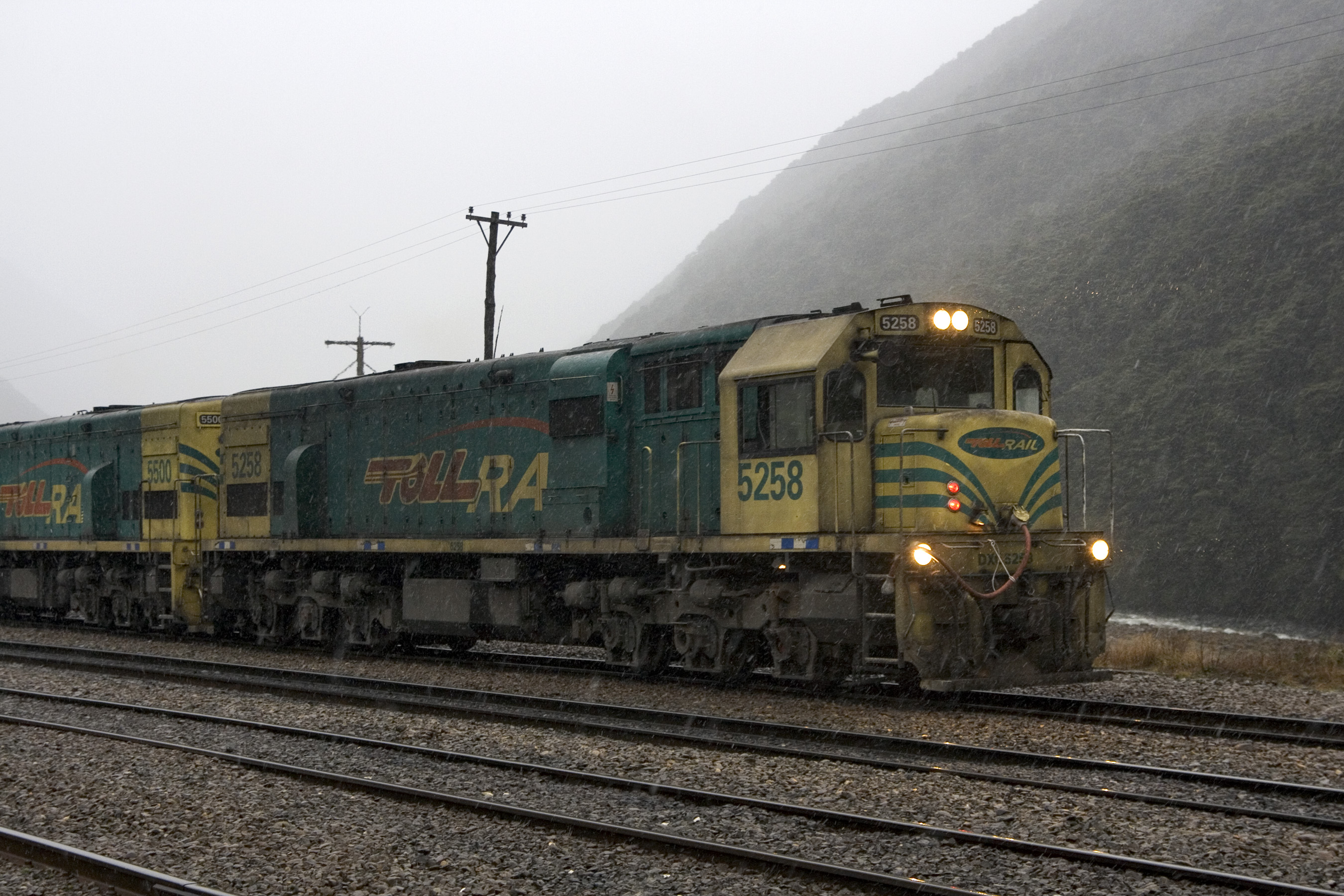 Diesel locomotive 5258 at Arthur's Pass station